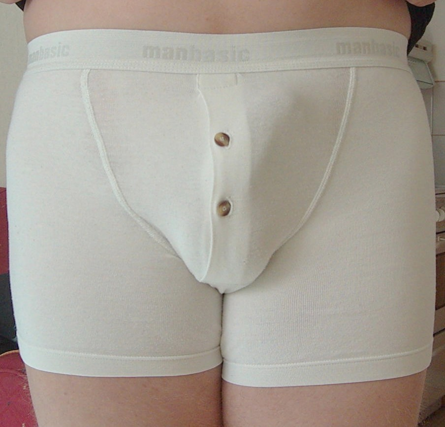 Trunks on a man; with mooseknuckle / manbulge. Own image.